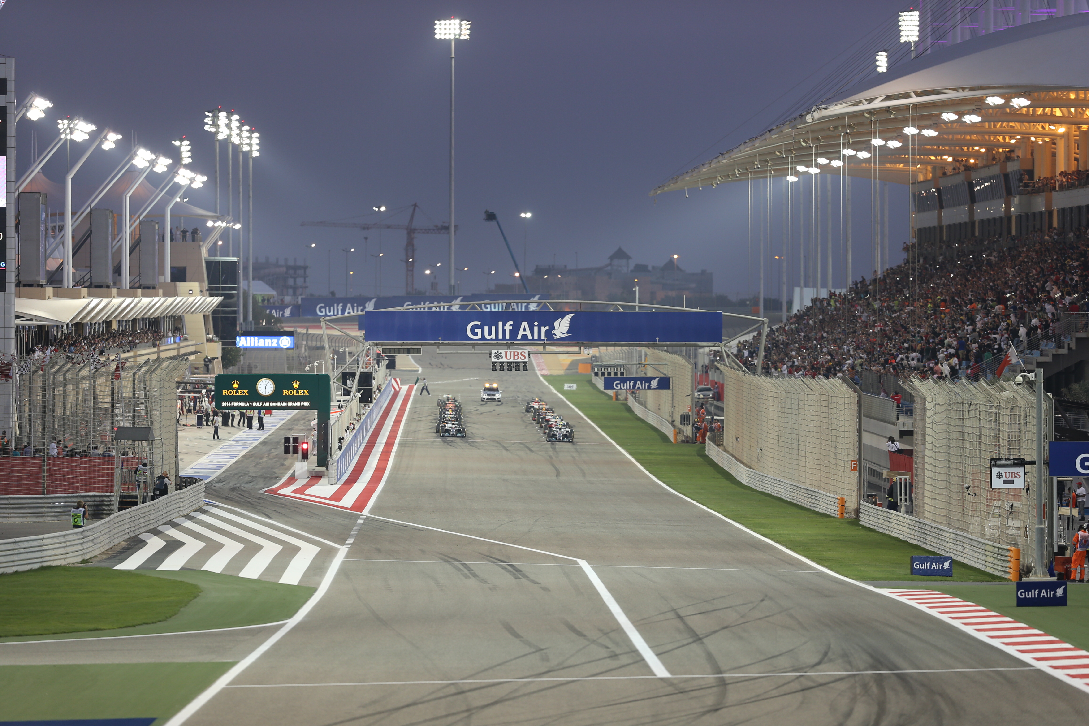 Kingdom of Bahrain